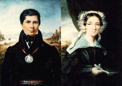 Portraits of Peter and Eliza Jones (nee Field), side by side